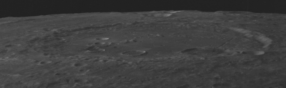 Oblique view of Gauss, on the moon.